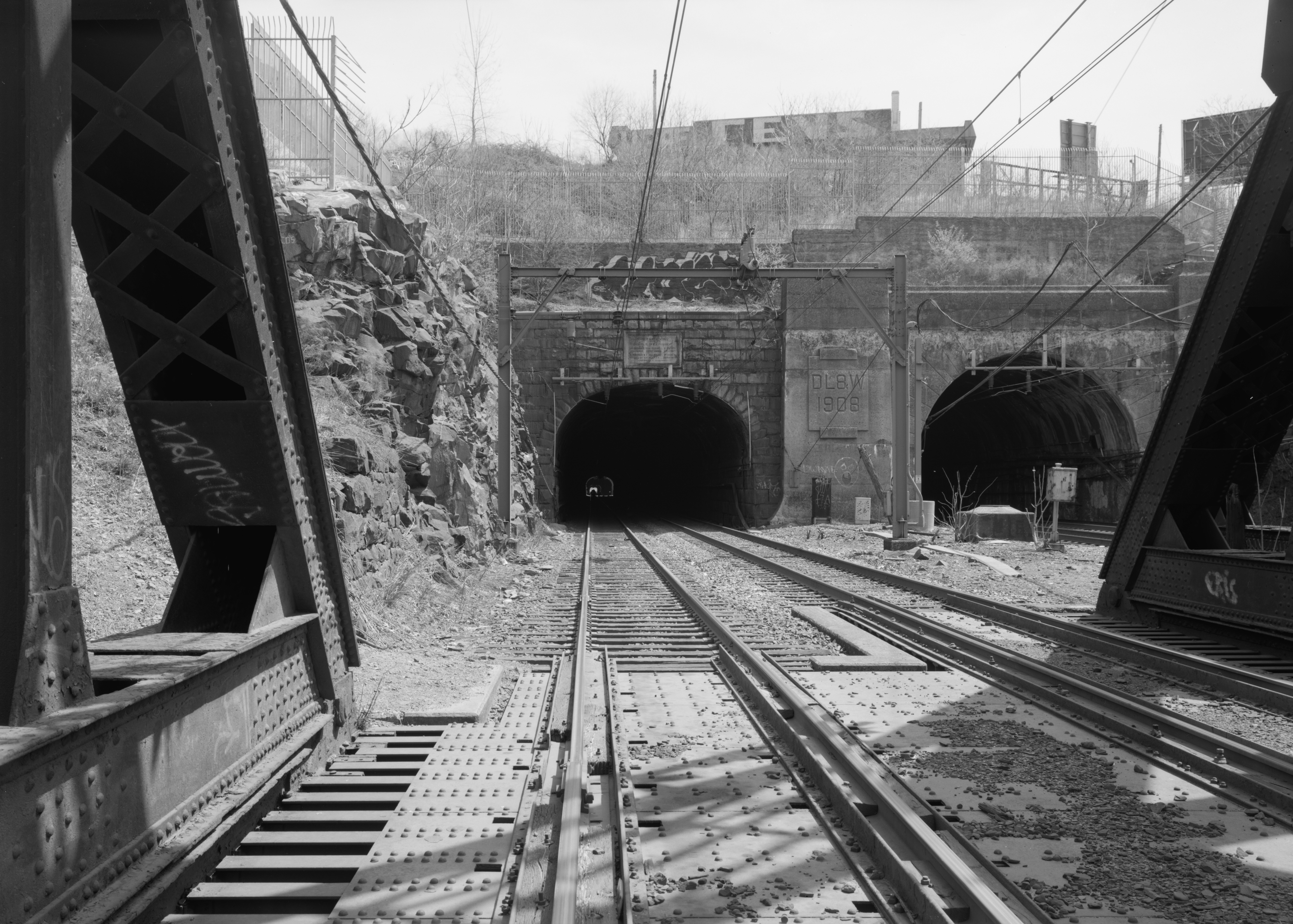 The Bergen Hill Tunnels consists of two tubes, the lst built in 1876 by the Morris & Essex Railroad, which became part of the Delaware, Lackawanna, and Western Railroad, which built the 2nd in 1908. Used later by Erie which consolidated to become Erie-Lackawanna Railroad. After 1979, become New Jersey Transit and remains the line to Hoboken Terminal.